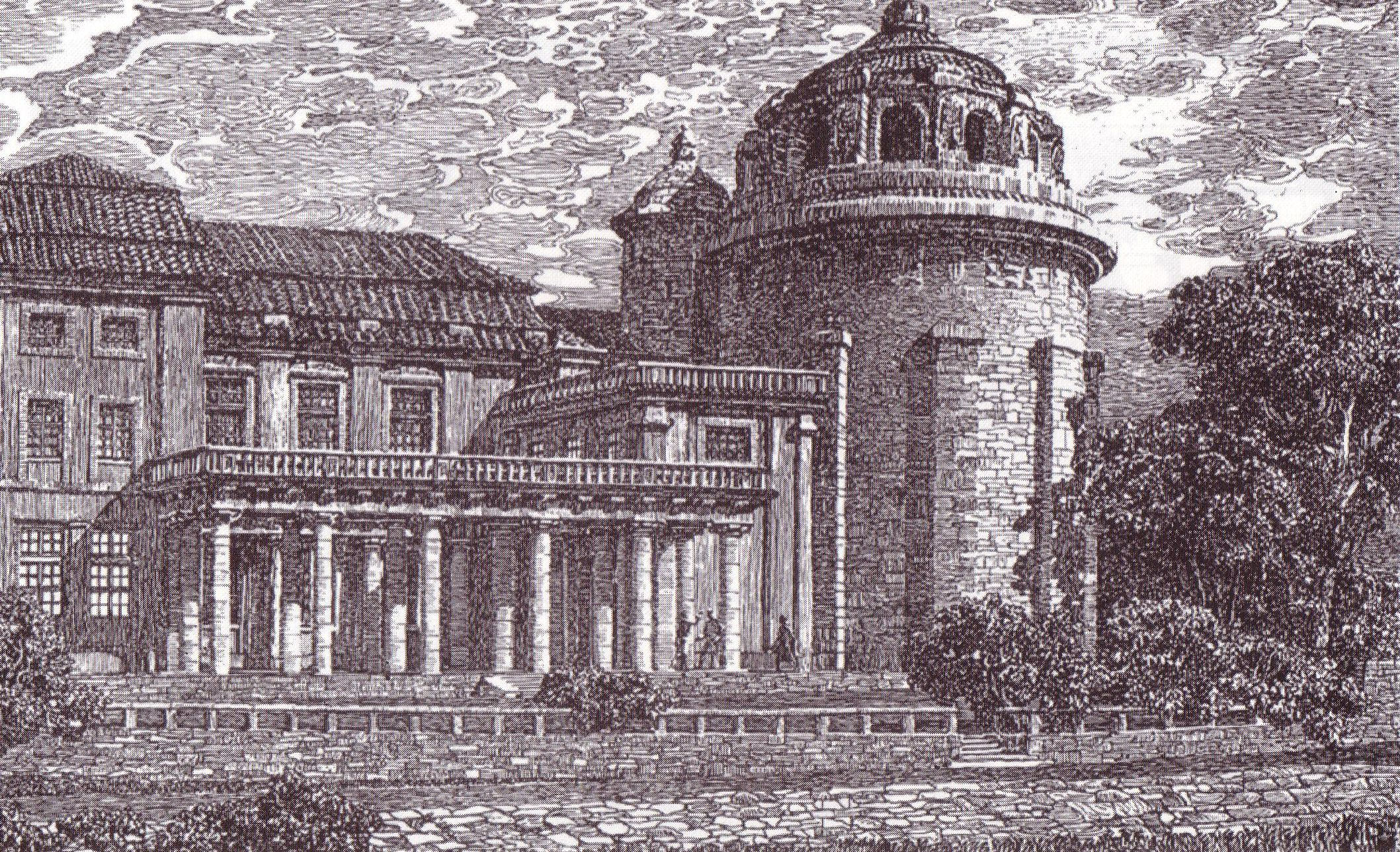 Unrealized plan of the congress centre of the German academic corps in Kösen